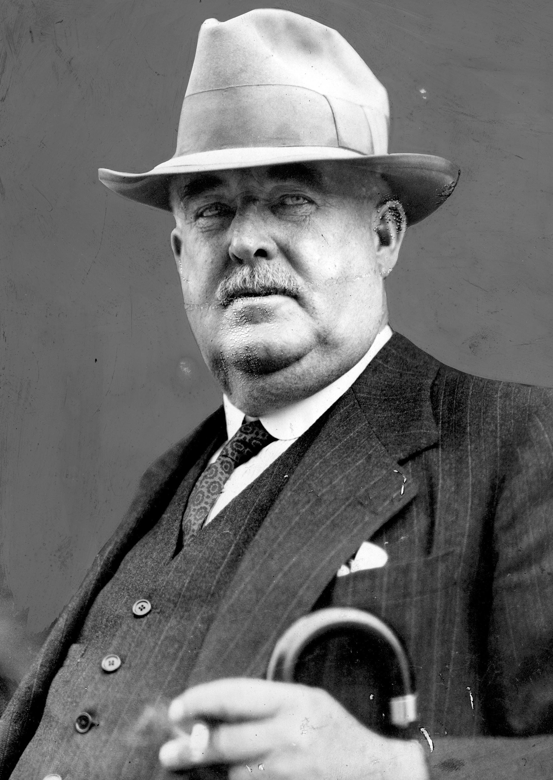 Sir James Mitchell, Premier and later Governor of Western Australia.